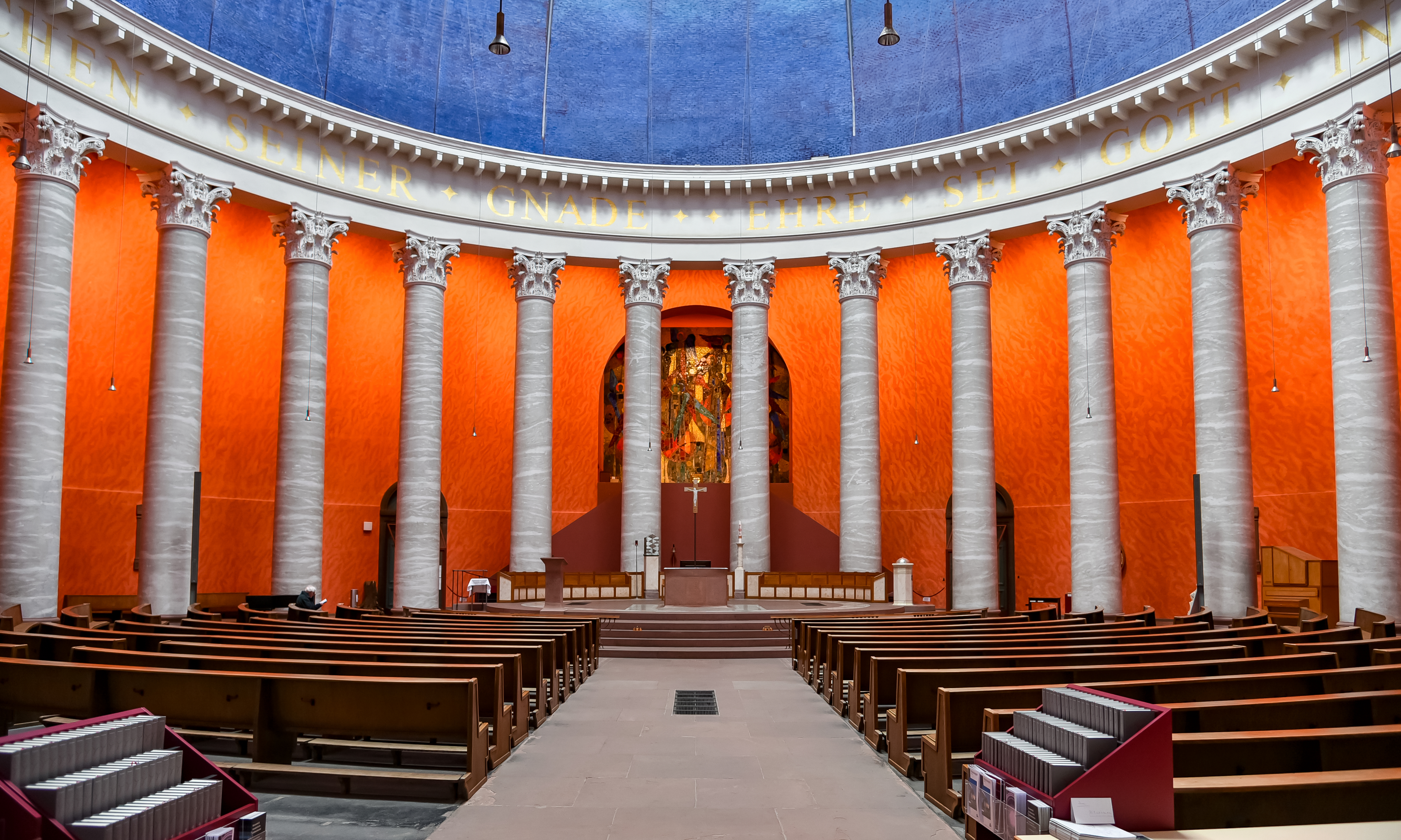 St. Ludwig Kuppelkirche (Darmstadt, Germany)